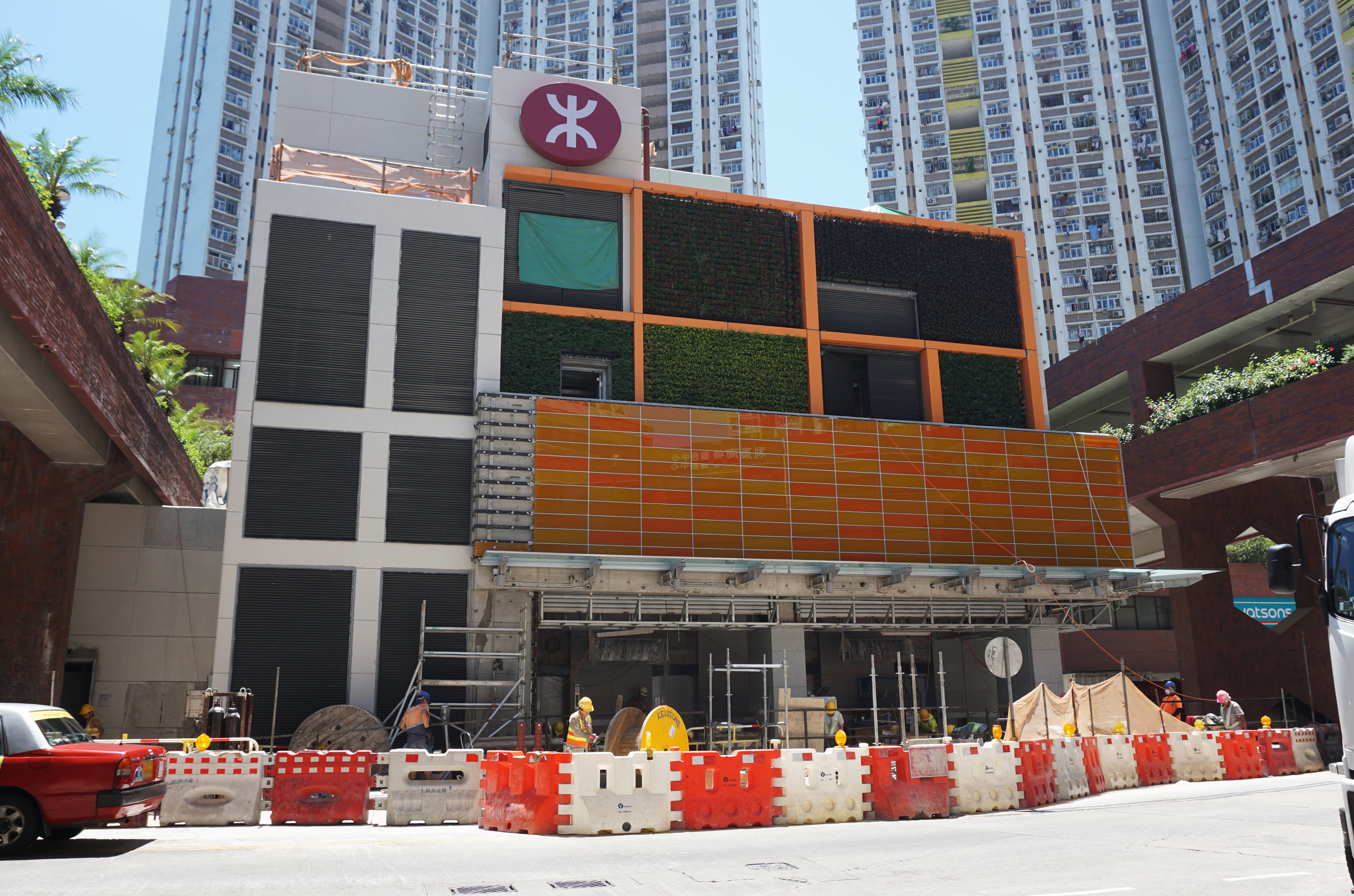 Lei Tung Station in Ap Lei Chau, Hong Kong.